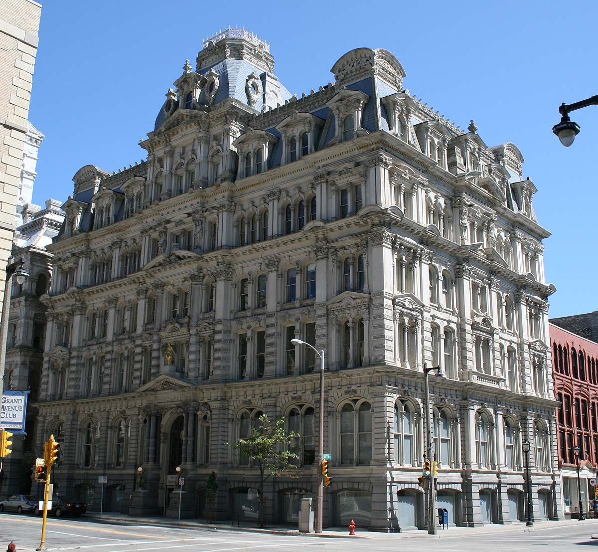 The Mitchell Building, an 1876 office building, Milwaukee, Wisconsin. National Registered Historic Place.